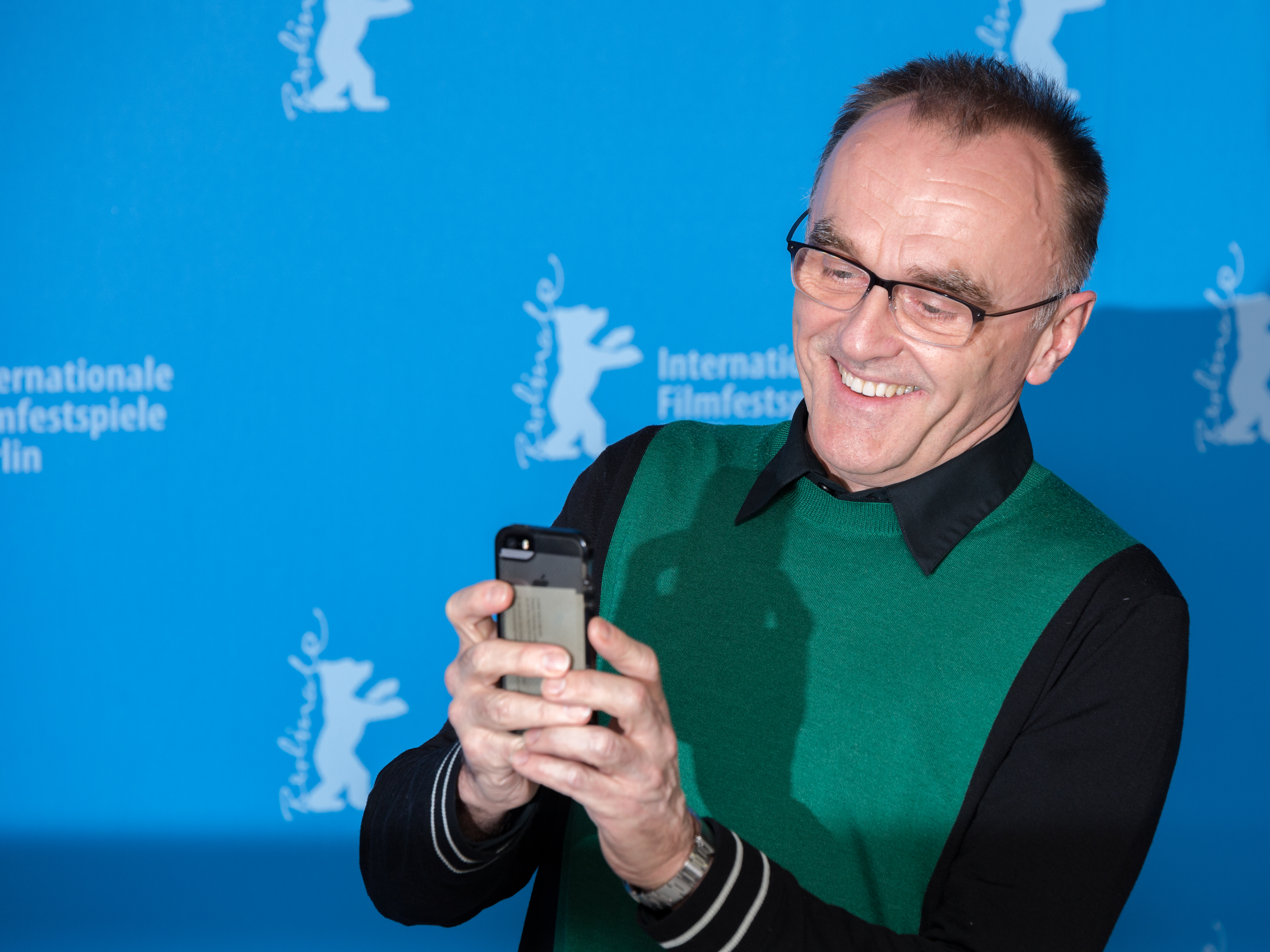 Danny Boyle presenting T2 Trainspotting at the Berlinale 2017